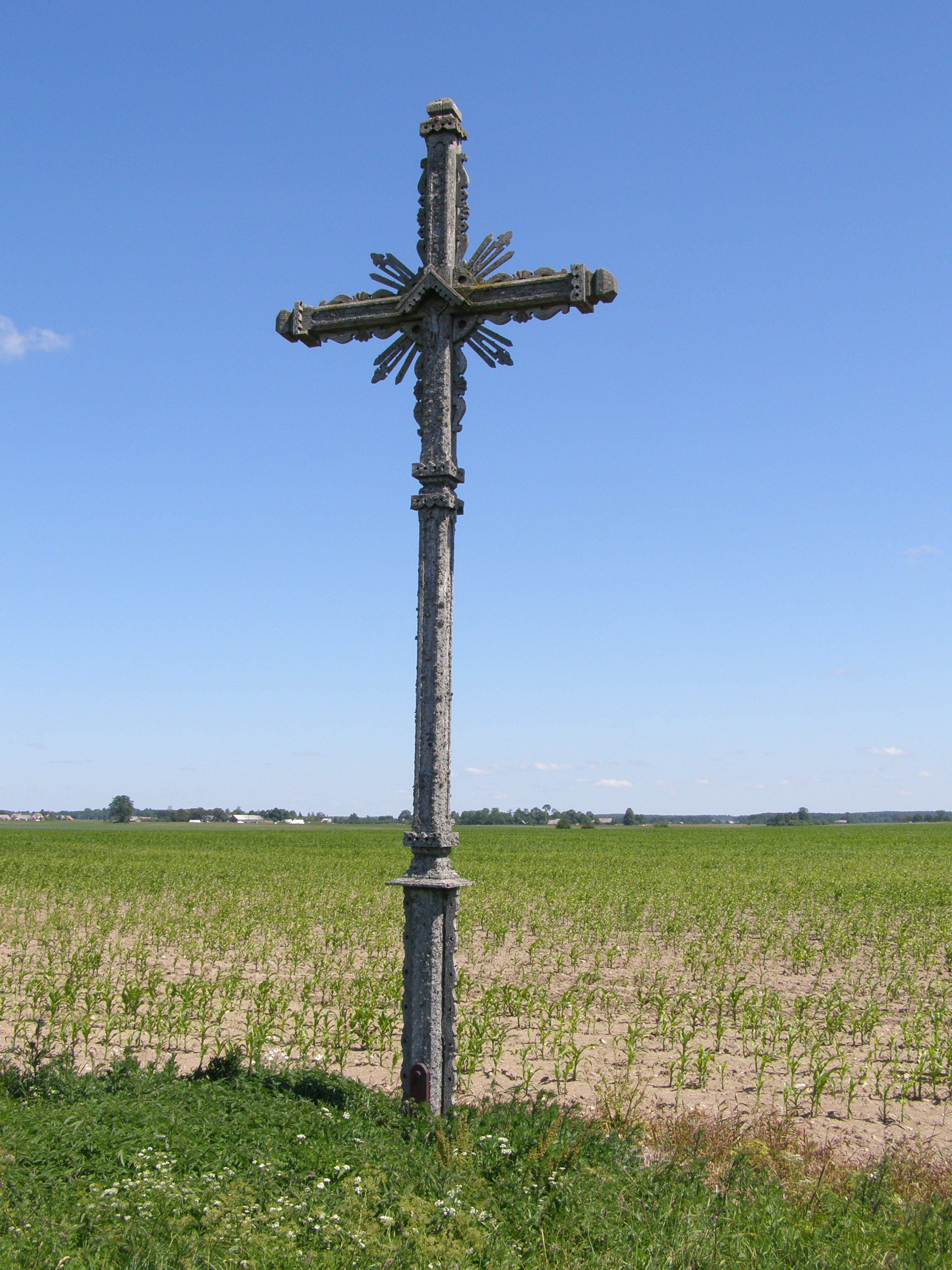 Kusai cross, Skuodas district, Lithuania